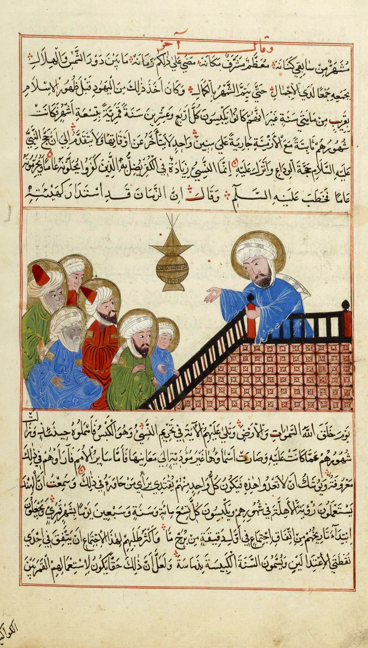 Folio 5v. of a 17th century copy (MS Arabe 1489) of The Remaining Signs of Past Centuries, corresponding to pages 14 (line 20) until 15 (line 11) of C. Eduard Sachau's 1879 English translation.